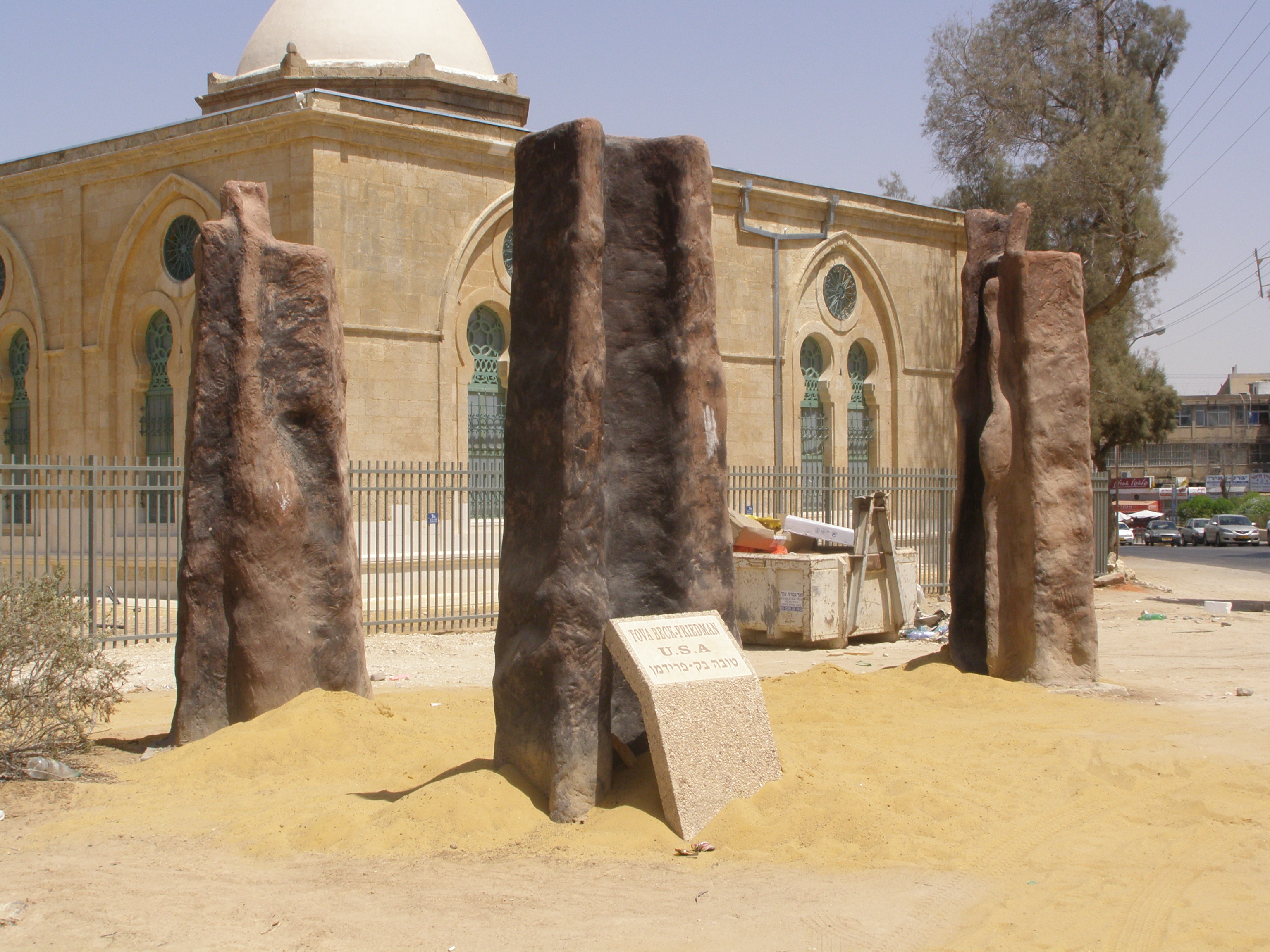 Beersheba, Old City, Gan Remez, Ceramics Biennale 1997